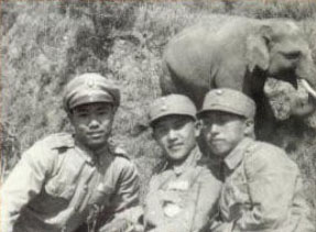 Lin Wang and his army comrades (frame cropped)